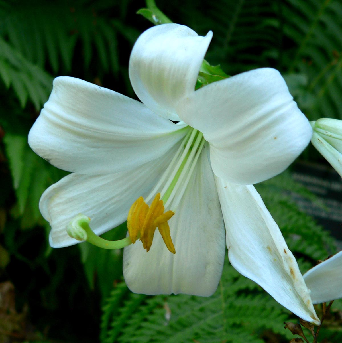 Photo of Lilium candidum at VanDusen Botanical Garden